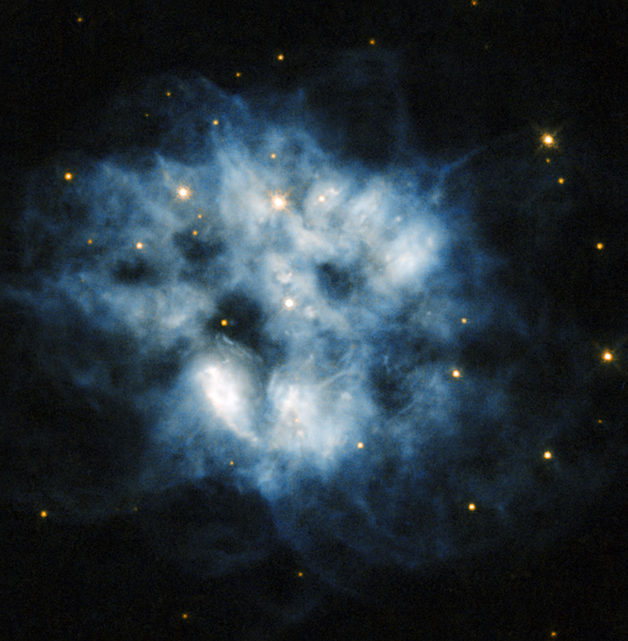 This NASA/ESA Hubble Space Telescope image shows the planetary nebula NGC 2452, located in the southern constellation of Puppis. The blue haze across the frame is what remains of a star like our Sun after it has depleted all its fuel. When this happens, the core of the star becomes unstable and releases huge numbers of incredibly energetic particles that blow the star's atmosphere away into space. At the centre of this blue cloud lies what remains of the nebula's progenitor star. This cool, dim, and extremely dense star is actually a pulsating white dwarf, meaning that its brightness varies over time as gravity causes waves that pulse throughout the small star's body. NGC 2452 was discovered by Sir John Herschel in 1847. He initially defined it as "an object whose nature I cannot make out. It is certainly not a star, nor a close double star [...] I should call it an oblong planetary nebula". To early observers like Herschel with their smaller telescopes, planetary nebulae resembled gaseous planets, and so were named accordingly. The name has stuck, although modern telescopes like Hubble have made it clear that these objects are not planets at all, but the outer layers of dying stars being thrown off into space. A version of this image was entered into the Hubble's Hidden Treasures image processing competition by contestants Luca Limatola and Budeanu Cosmin Mirel.